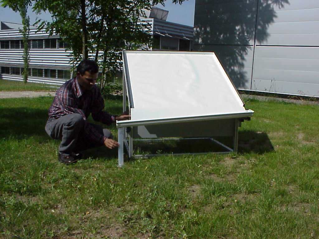 OPUR Dew Condenser